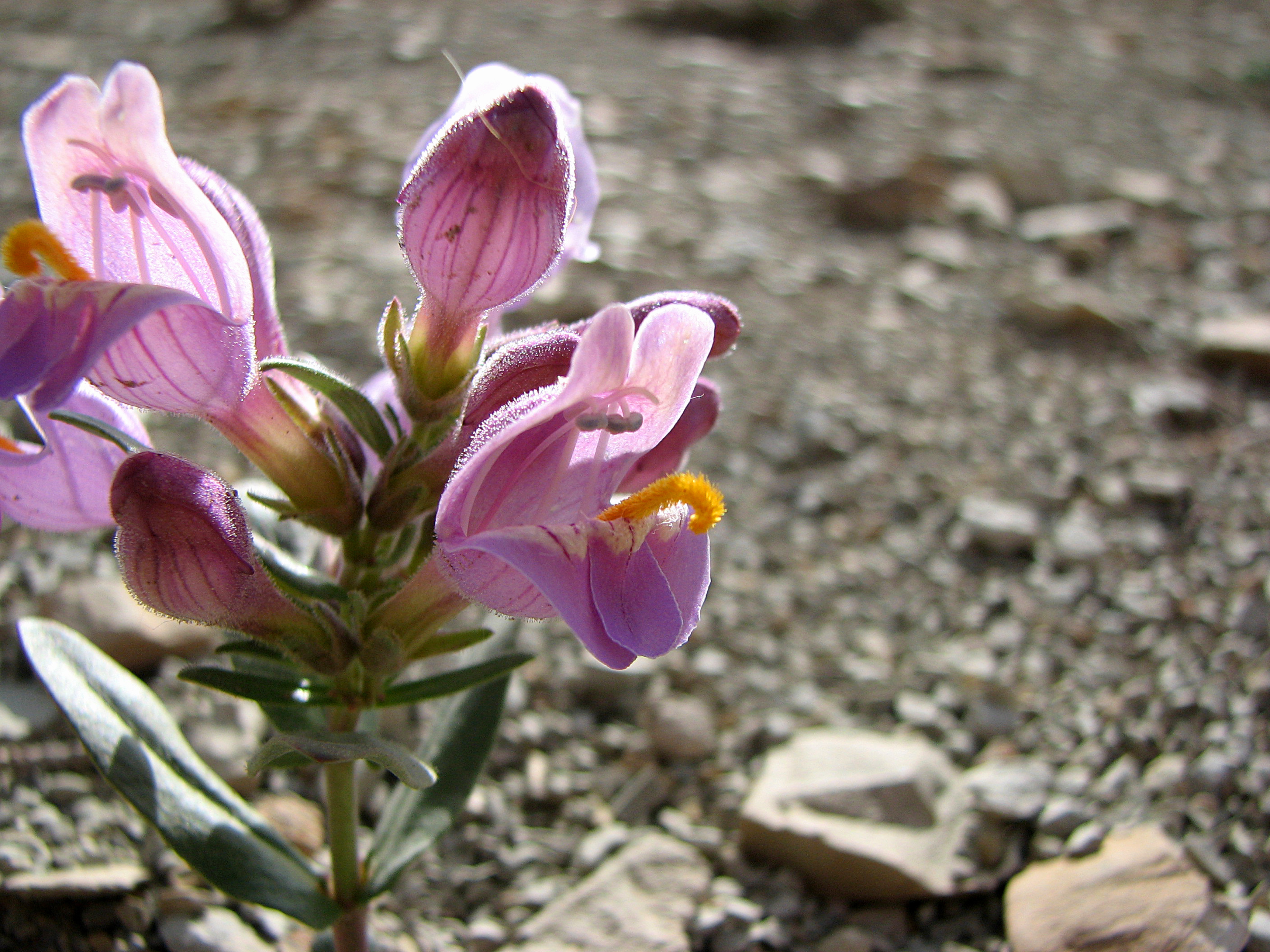 Graham’s beardtongue (Penstemon grahamii) is a perennial plant known from the Uintah Basin in Utah and Colorado. This species is susceptible to impacts from energy exploration and development, as well as the cumulative impacts of increased energy development, livestock grazing, invasive weeds, and climate change. For more Graham's beardtongue info: Credit: Kevin Megown / USFS